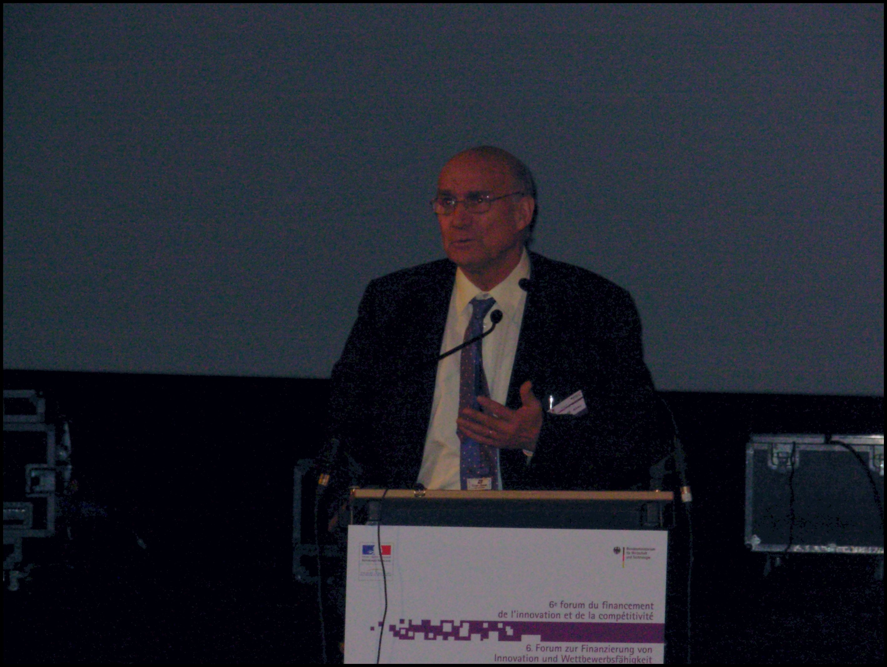 Adrien Zeller in the "6e forum du financement de l'innovation et de la compétivité", Strasbourg, 14 december 2006